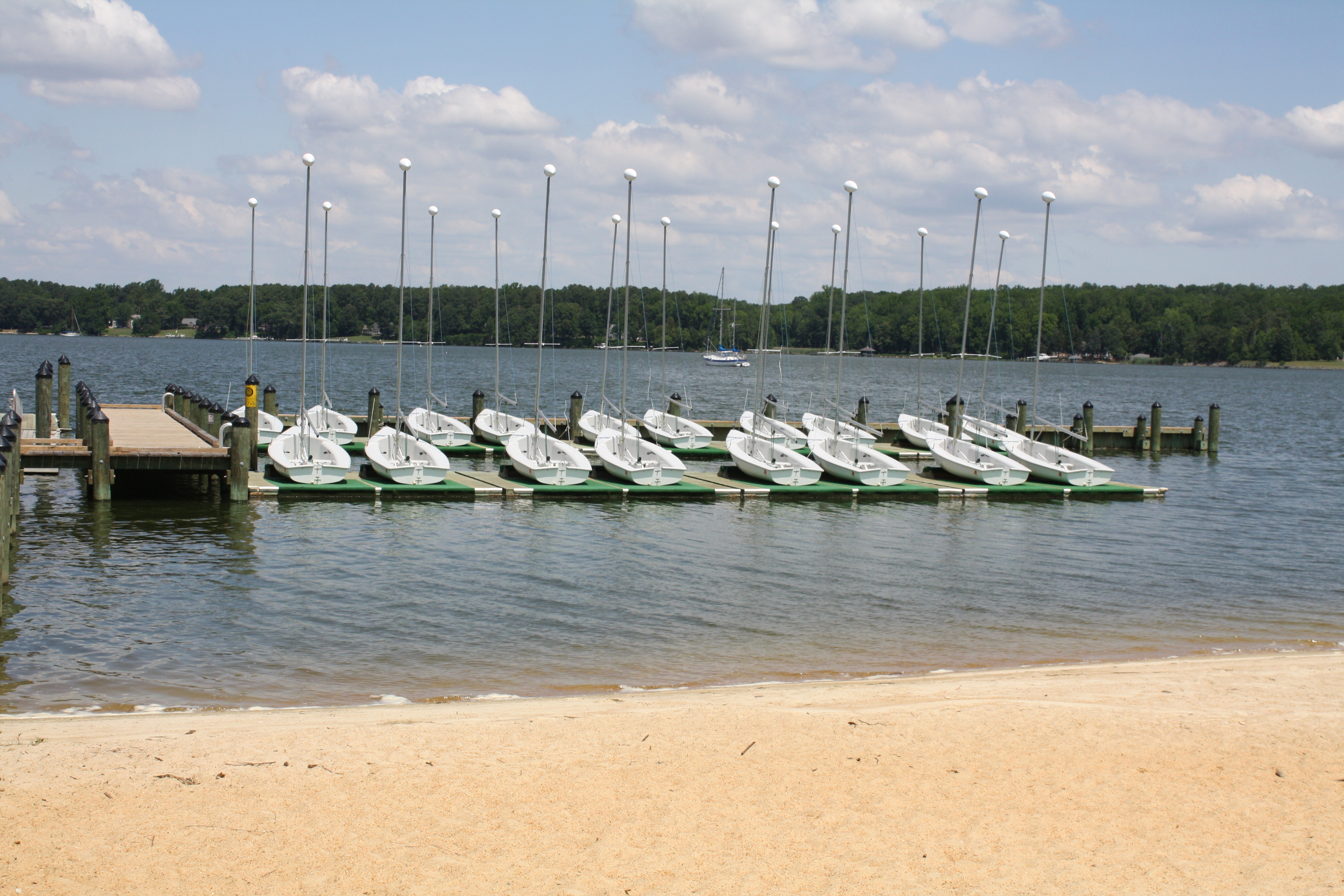 St. Mary's College of Maryland, Sailing Team boats Photo by Elvert Barnes, June 2011.